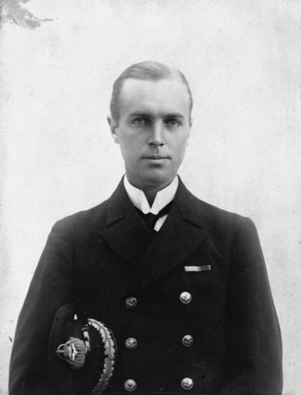 Photograph of Richard Bell-Davies VC of the Royal Naval Air Service, VC recipient in World War I and later Vice Admiral.